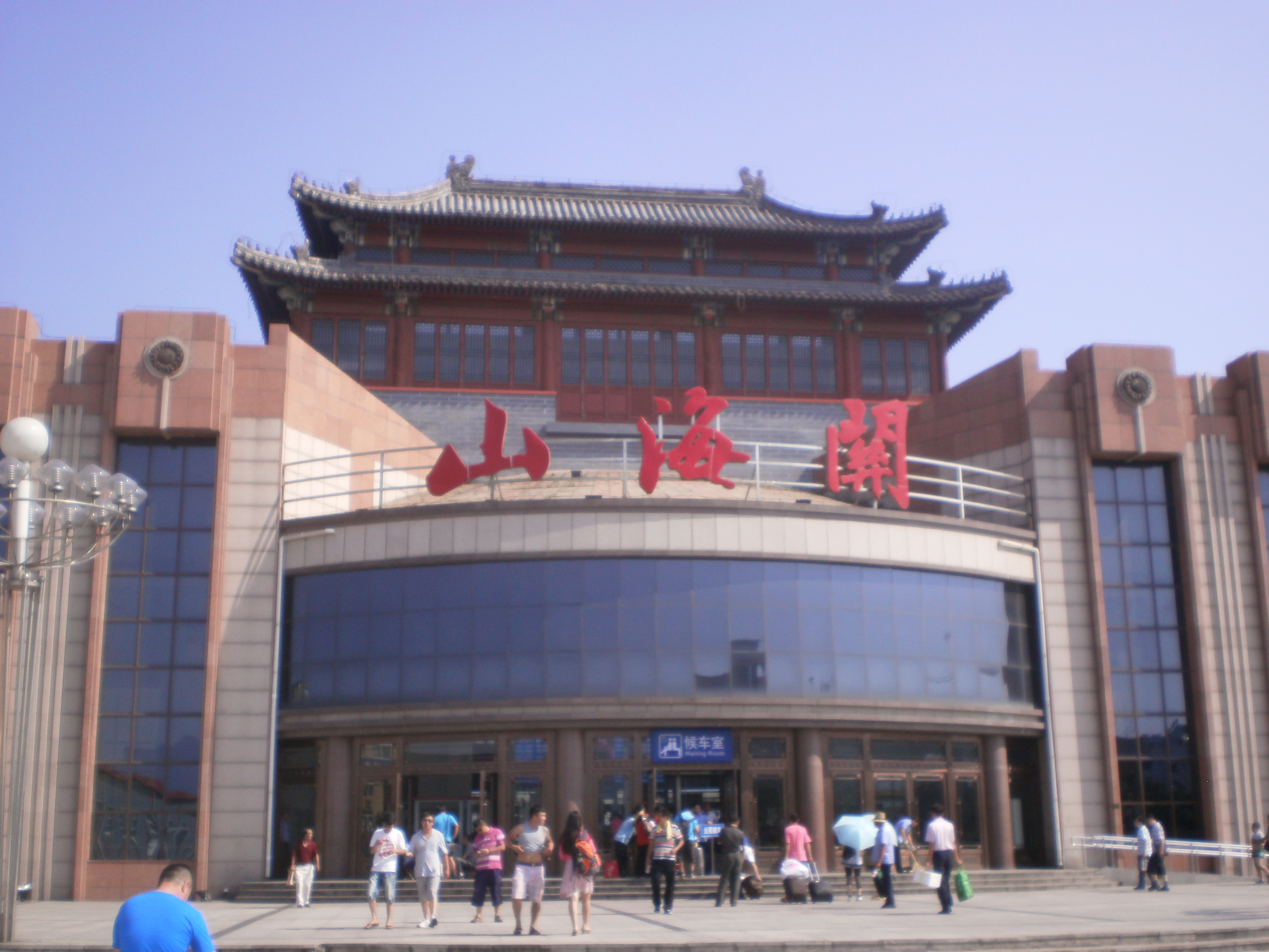 Shanhaiguan train station